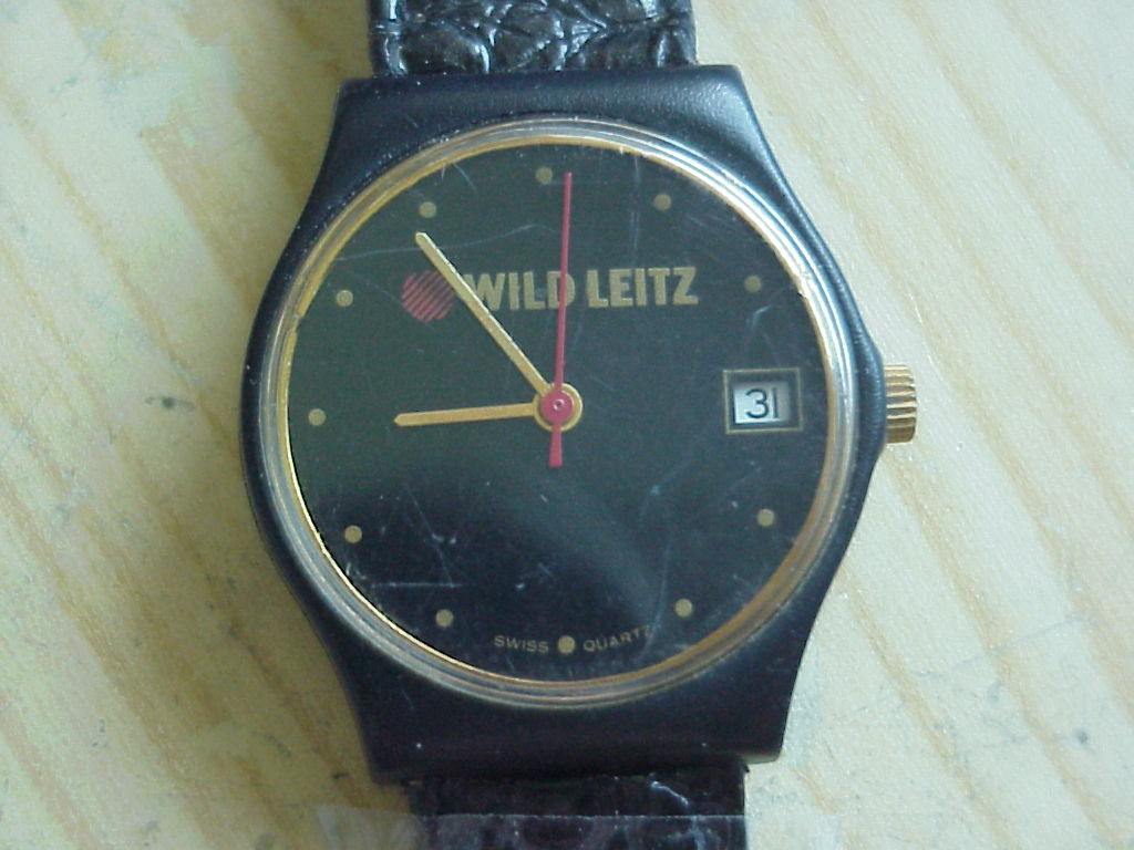 Wild Leitz Company Logo